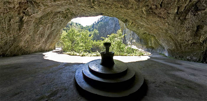 Škocjan Caves, a view towards the exit of Tominc cave (taken with permission of the park authorities). Kraus Fountain, built in 1889 in honor of the Viennese natural historian Franz Kraus.